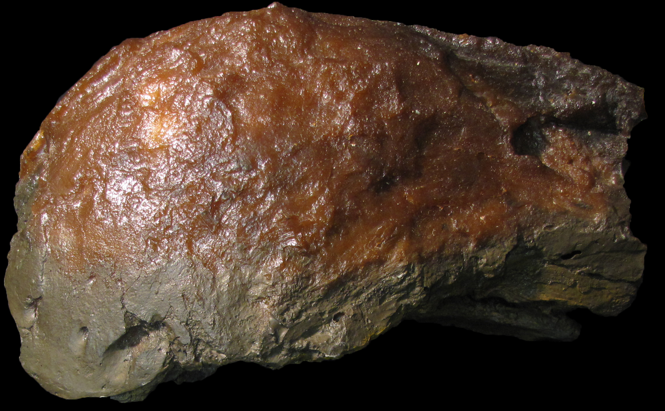 Lateral view of the cast of the fused premaxillae of Oxalaia quilombensis.